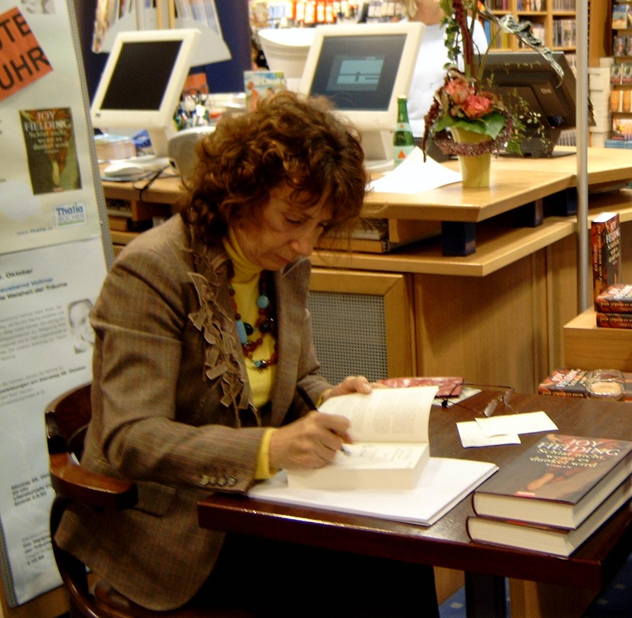 Joy Fielding